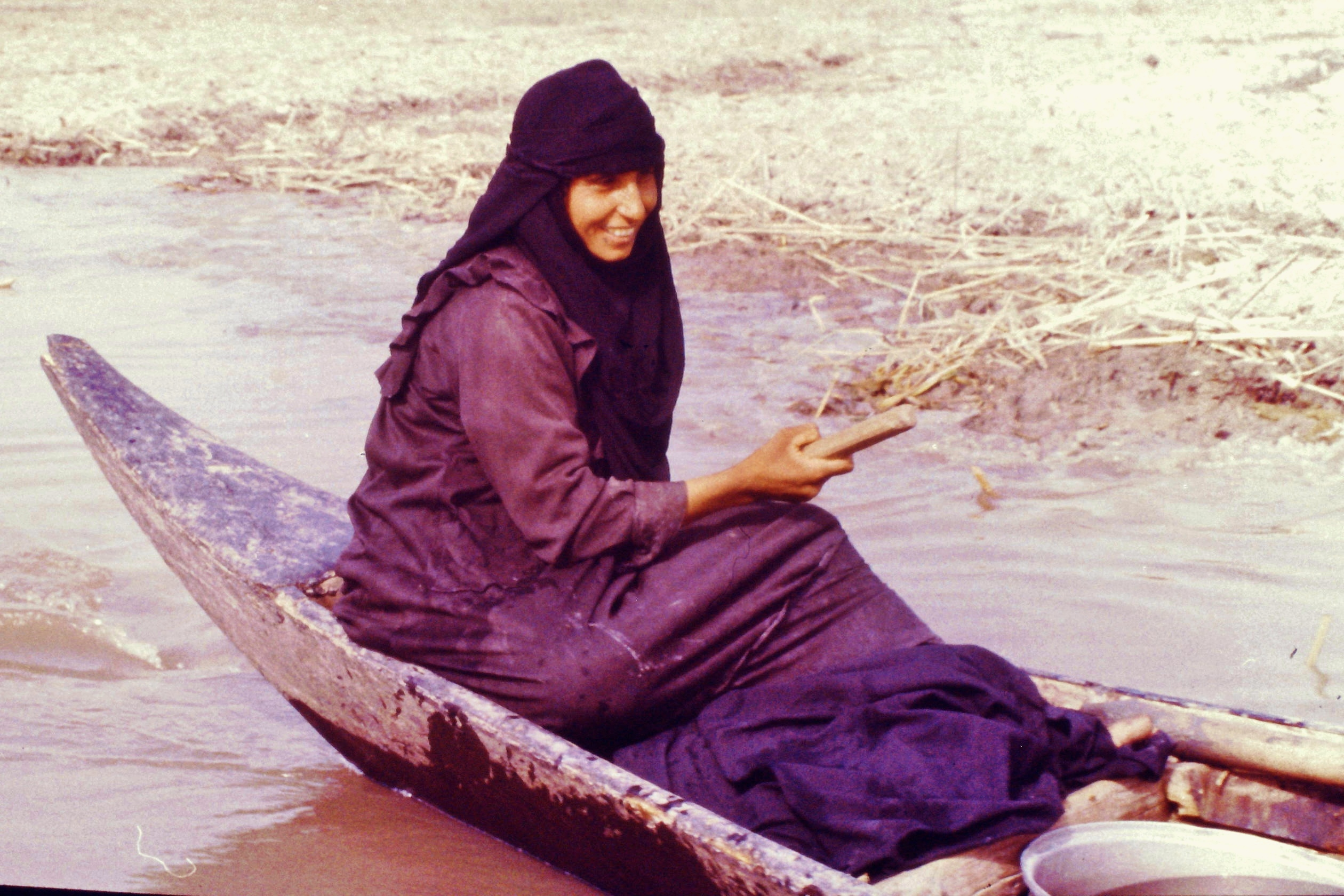 Swamp dweller near Basra, Iraq